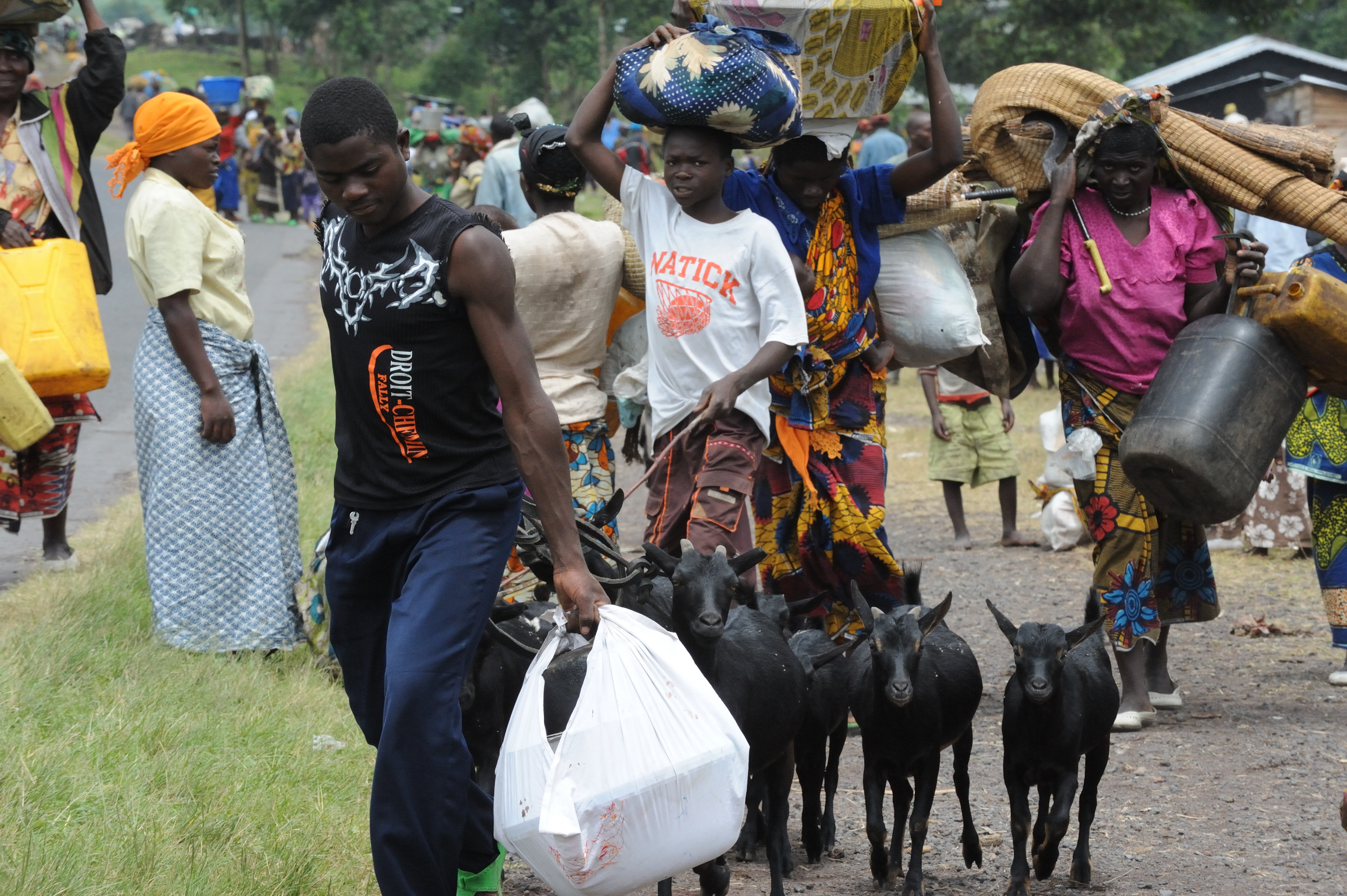 "I was on the outskirts of Kibati camp to oversee our emergency measles vaccination. It was in the same location as an ICRC WFP food distribution. We heard shooting the other side of the camp less than a kilometer away, single shots and automatic for about 15 minutes. People fled the distribution, ran to the camp picked up their belongings and hurried down the hill to Goma. A crowd gathered around an abandoned food truck and started to loot it until government military police came in to restore order. As we drove back more than 200 very tense government troops trudged up the hill, announcing worse to come." - author